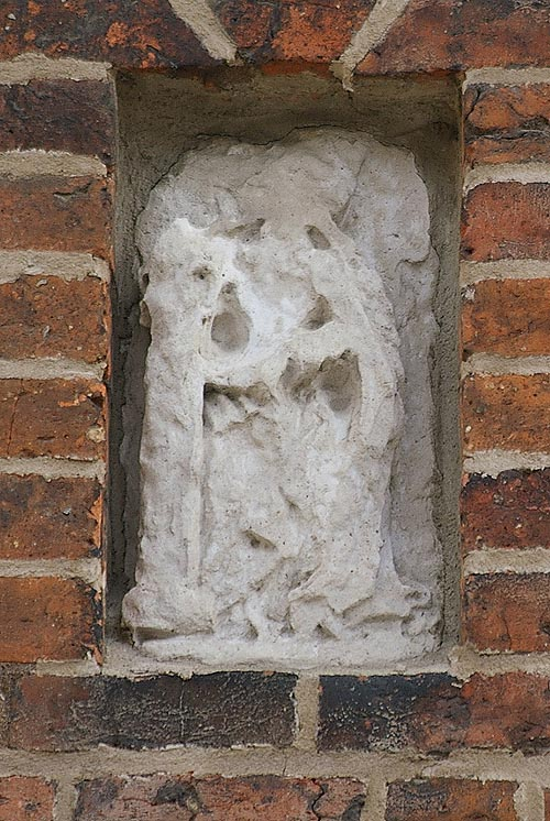 Sculpture St. Peter, St. Peter church, Malmo, Sweden, about 1460.